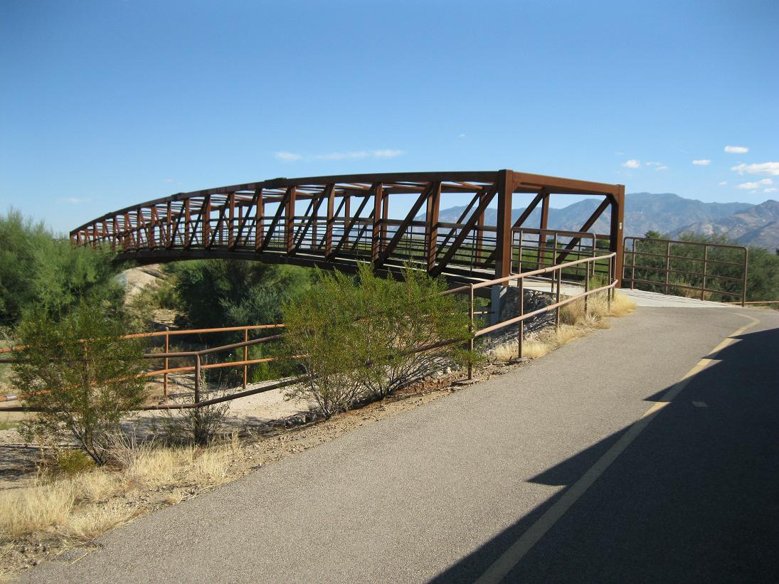 The photo shows a footbridge on the Canada del Oro (CDO) Trail near Logan's Crossing subdivision in Oro Valley, Arizona. This is located about 300 yards east of La Canada Drive.